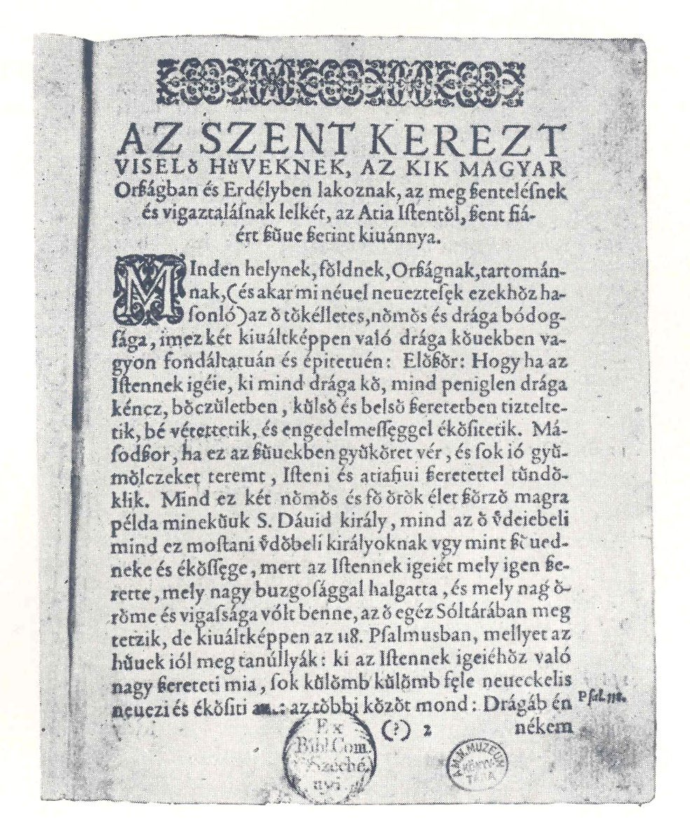 Forewords for Postilla of Sóvári Soós Kristóf